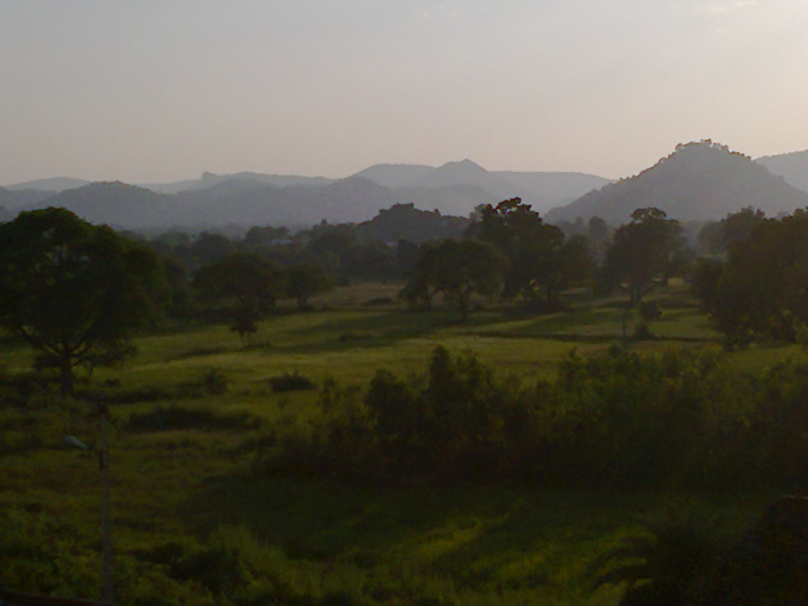 Kanker District headquarters in Chattisgarh